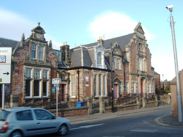 Library and City Hall in Kirriemuir